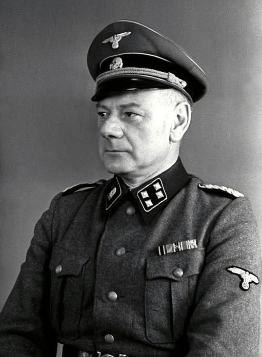 Information added by Wikimedia users. Portrait of Dr. Ewald Krebsbach, doctor of the Mauthausen concentration camp, as SS-Sturmbannführer, c. 1942/1943